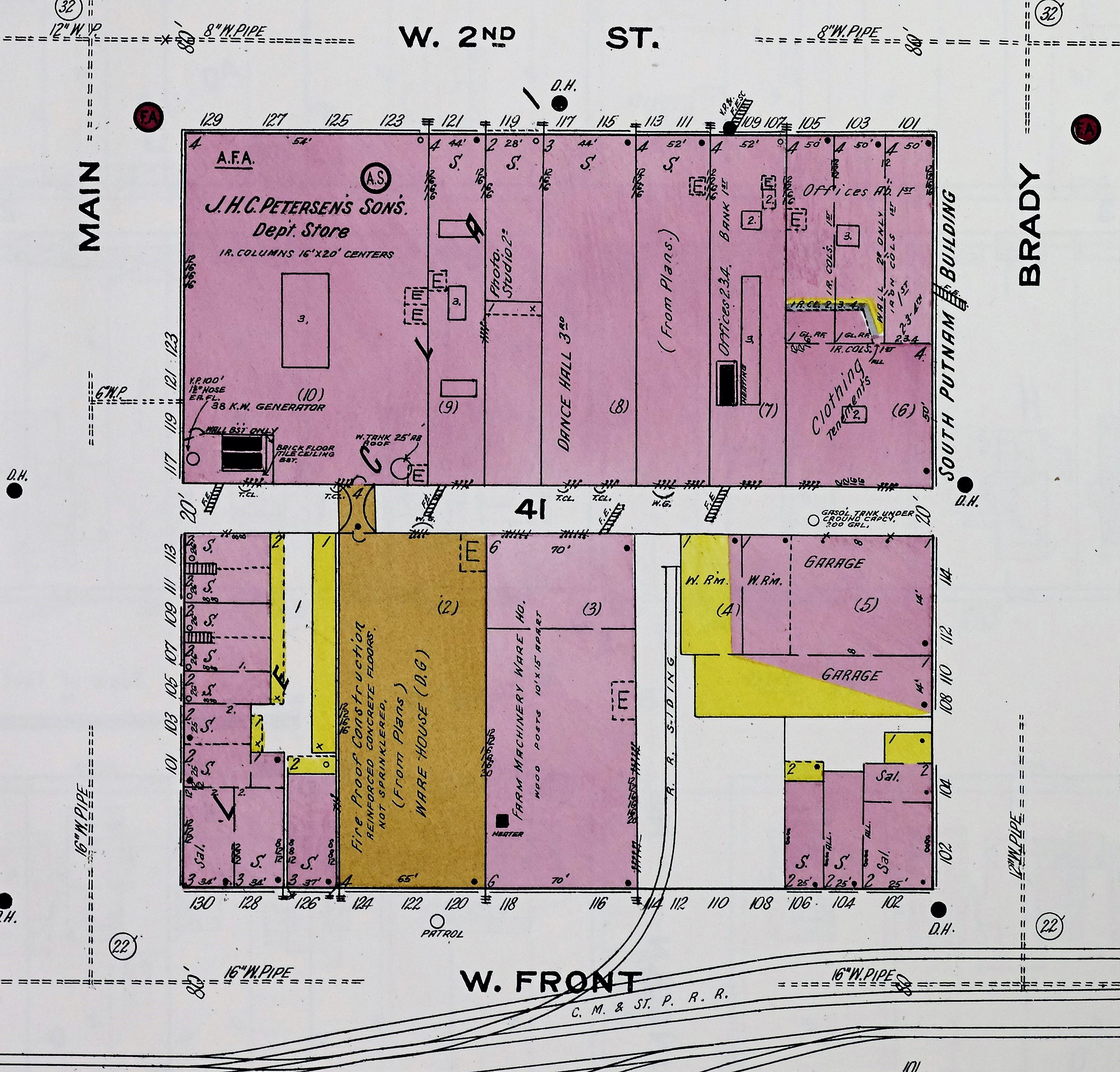 A 1910 Sanborn Fire Insurance Map cropped to show a commercial block in Downtown Davenport, Iowa, United States. In the upper left corner of the block is the former J.H.C. Petersen's Sons' Store. It is connected across the alley to the J.H.C. Petersen's Sons Wholesale Building (gold). The Schick's Express and Transfer Co. (pink) is immediately adjacent to the Petersen's Wholesale Building on the right. To the left of the Wholesale Building along Front Street (now River Drive) are the Schauder Hotel and the Clifton-Metropolitan Hotel on the corner. They eventually became part of the Petersen's store and were used for storage. Note the railroad siding on Front Street. Most of the buildings on this map are no longer extant.